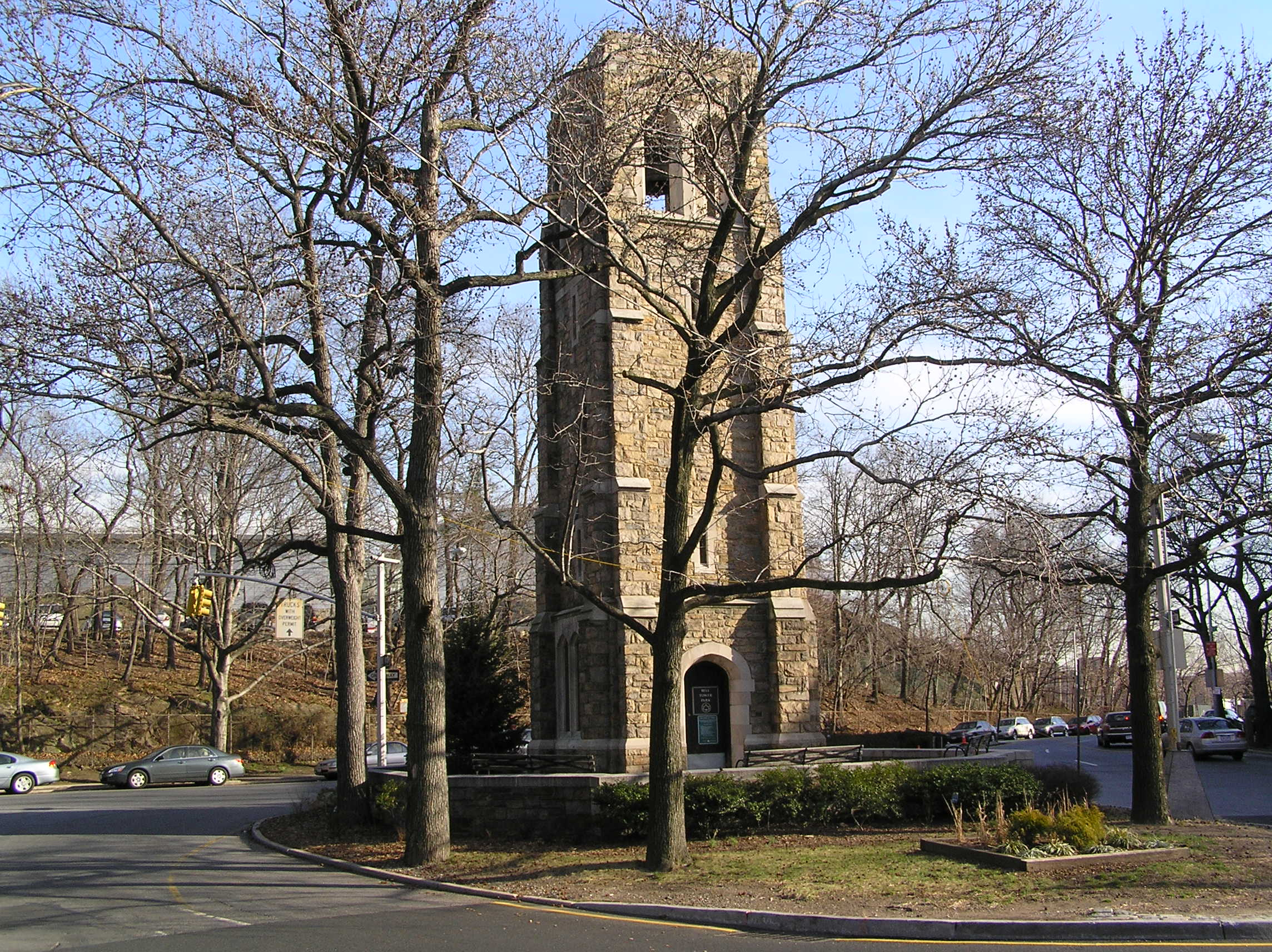 I took this photograph of Bell Tower Park in Riverdale on January 11, 2007.